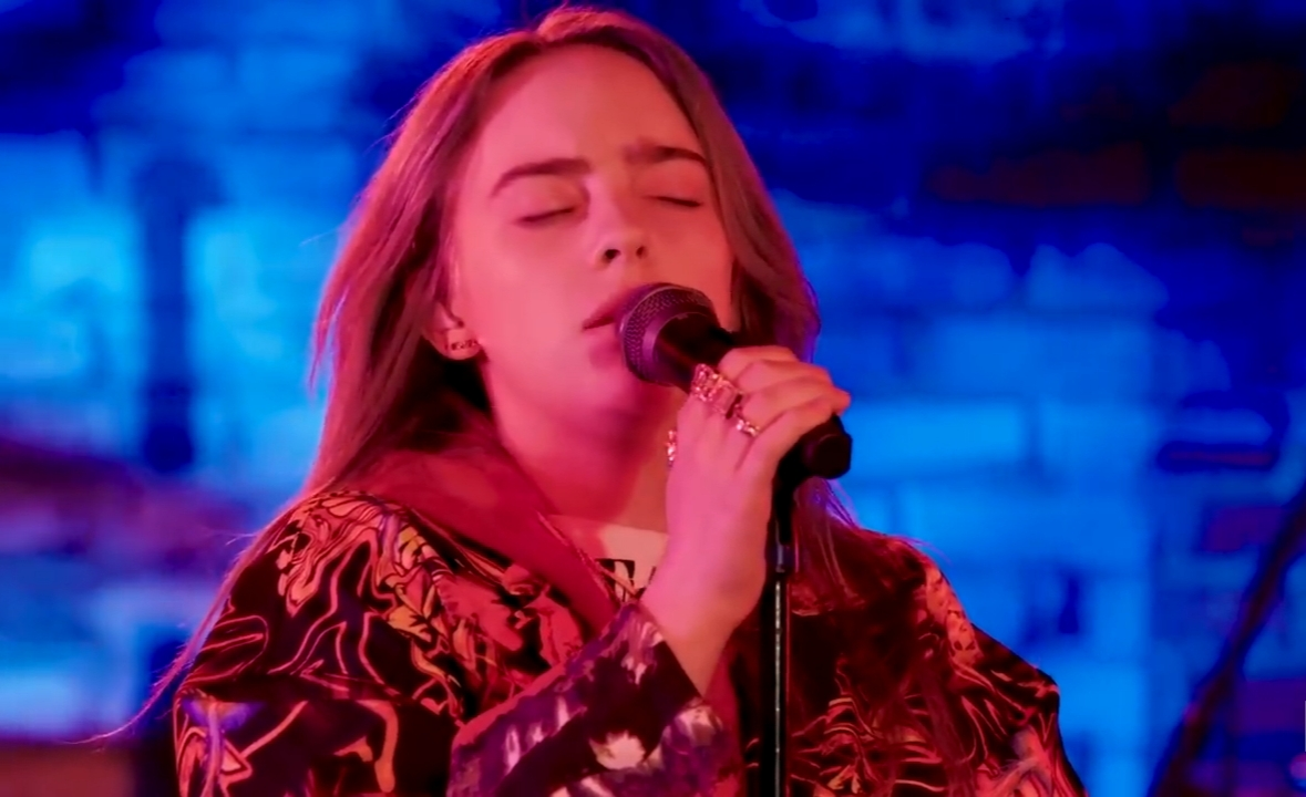 American singer Billie Eilish performing a medley of "Xanny", "When the Party's Over" and "Wish You Were Gay" at MTV Push.